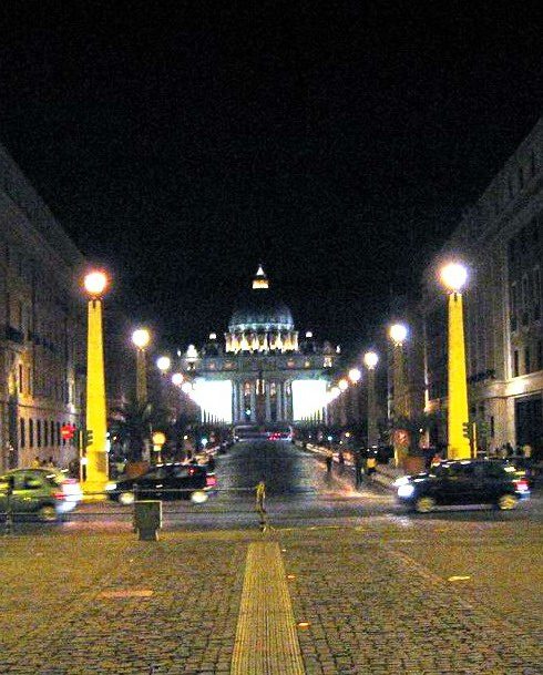 View by night of the Via della Conciliazione with Saint Peter's Basilica in the background. (Rome).